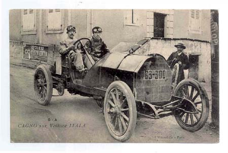 Alessandro Cagno driving Itala (63-300) circa 1906-8